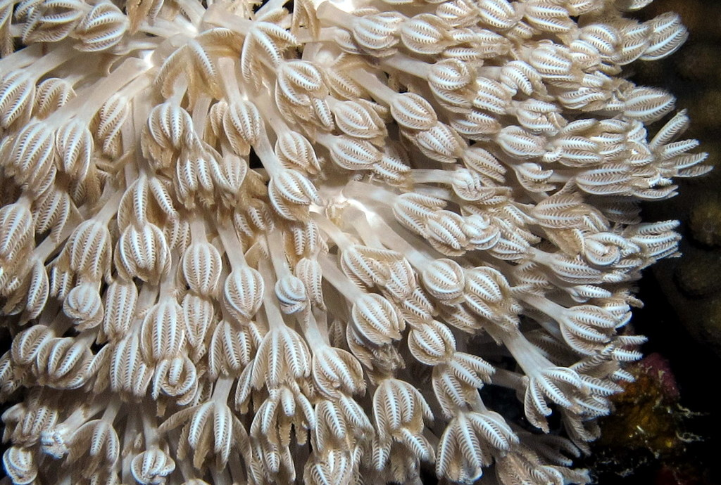 Pulsating xenid, Heteroxenia fuscescens, a soft coral that pulsates rhythmically around 40 times a minute, close view of polyps.